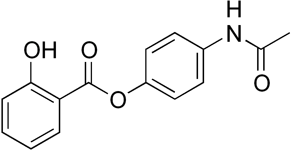 chemical structure of acetaminosalol, phenosal, salophen